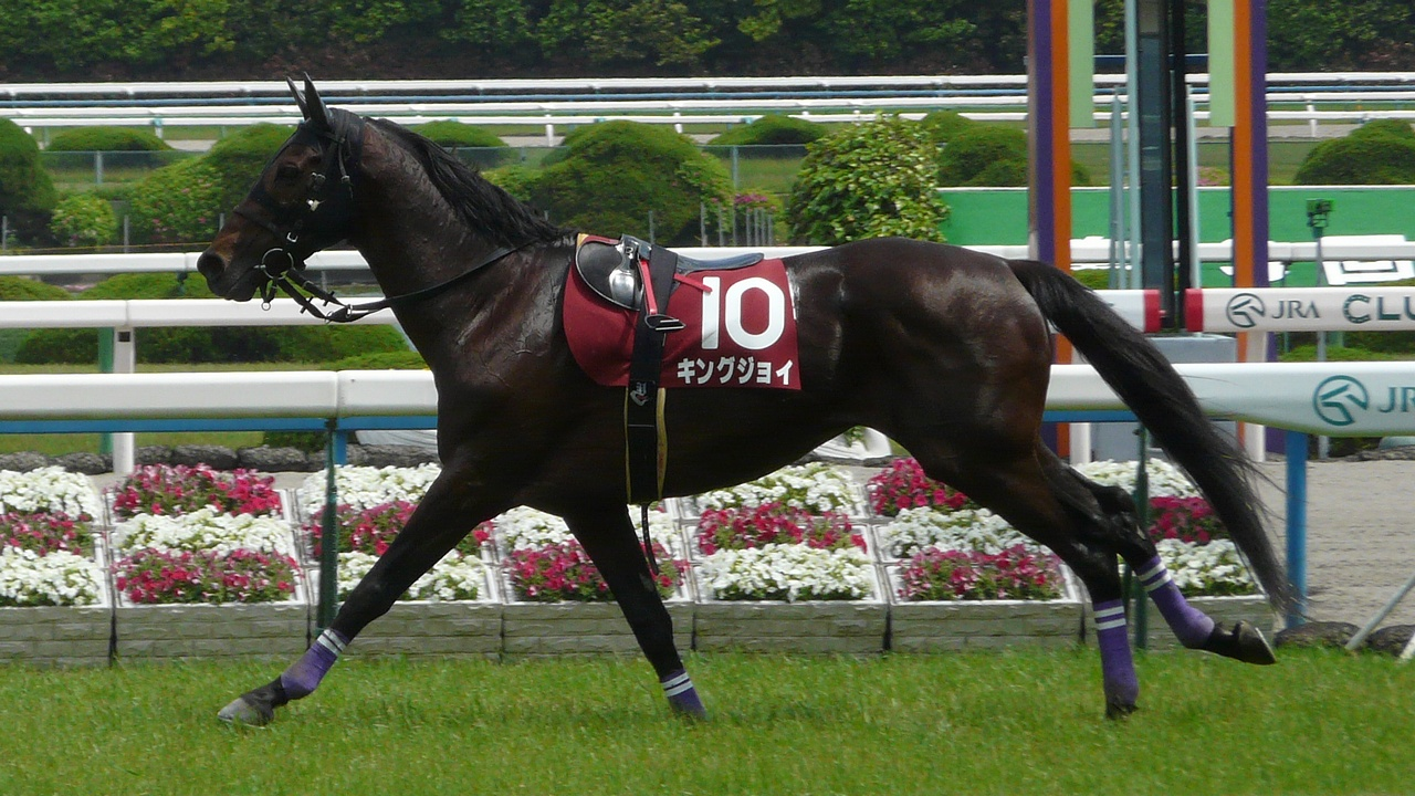 King-Joy20110514